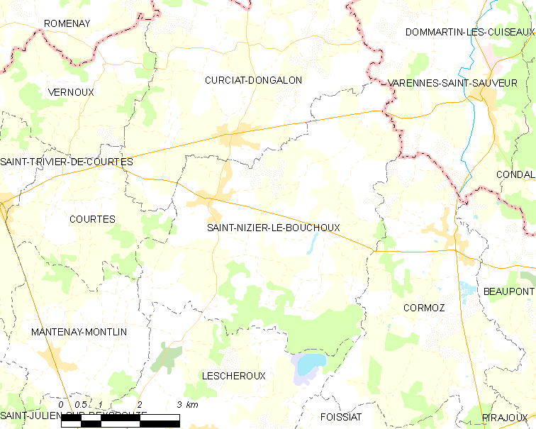 Map of French commune: Saint-Nizier-le-Bouchoux Map commune FR insee code 01380.png